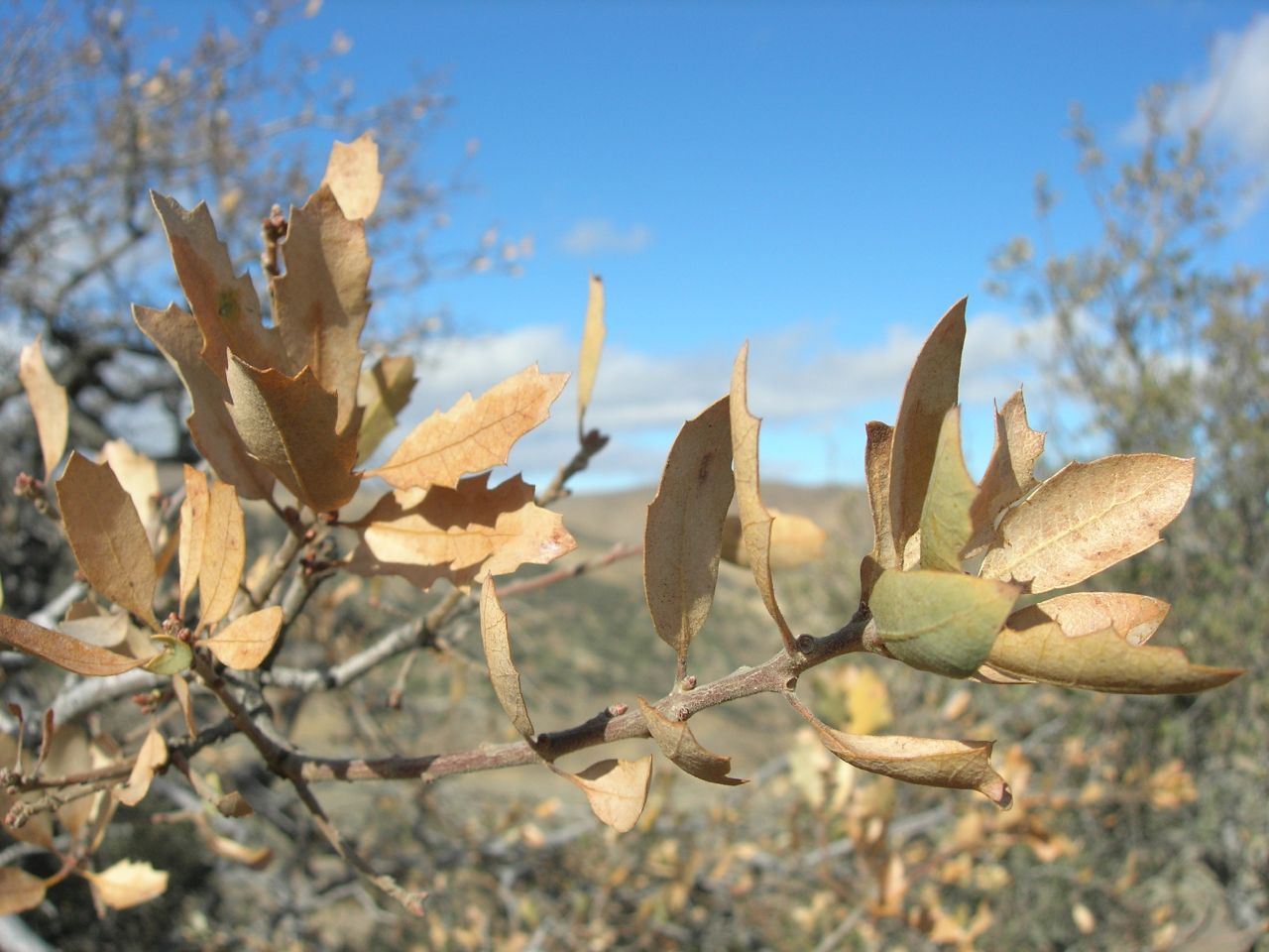 Quercus john-tuckeri, Hungry Valley, Los Angeles County